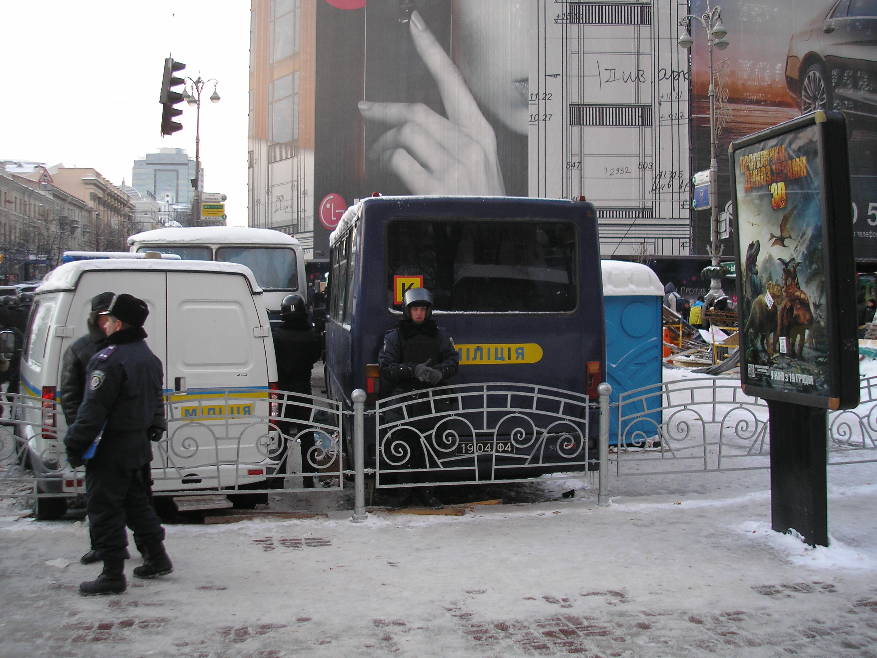 Euromaidan in early evening